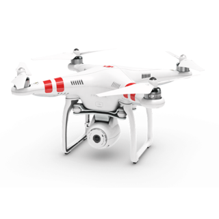 Phantom 2 Vision quadcopter